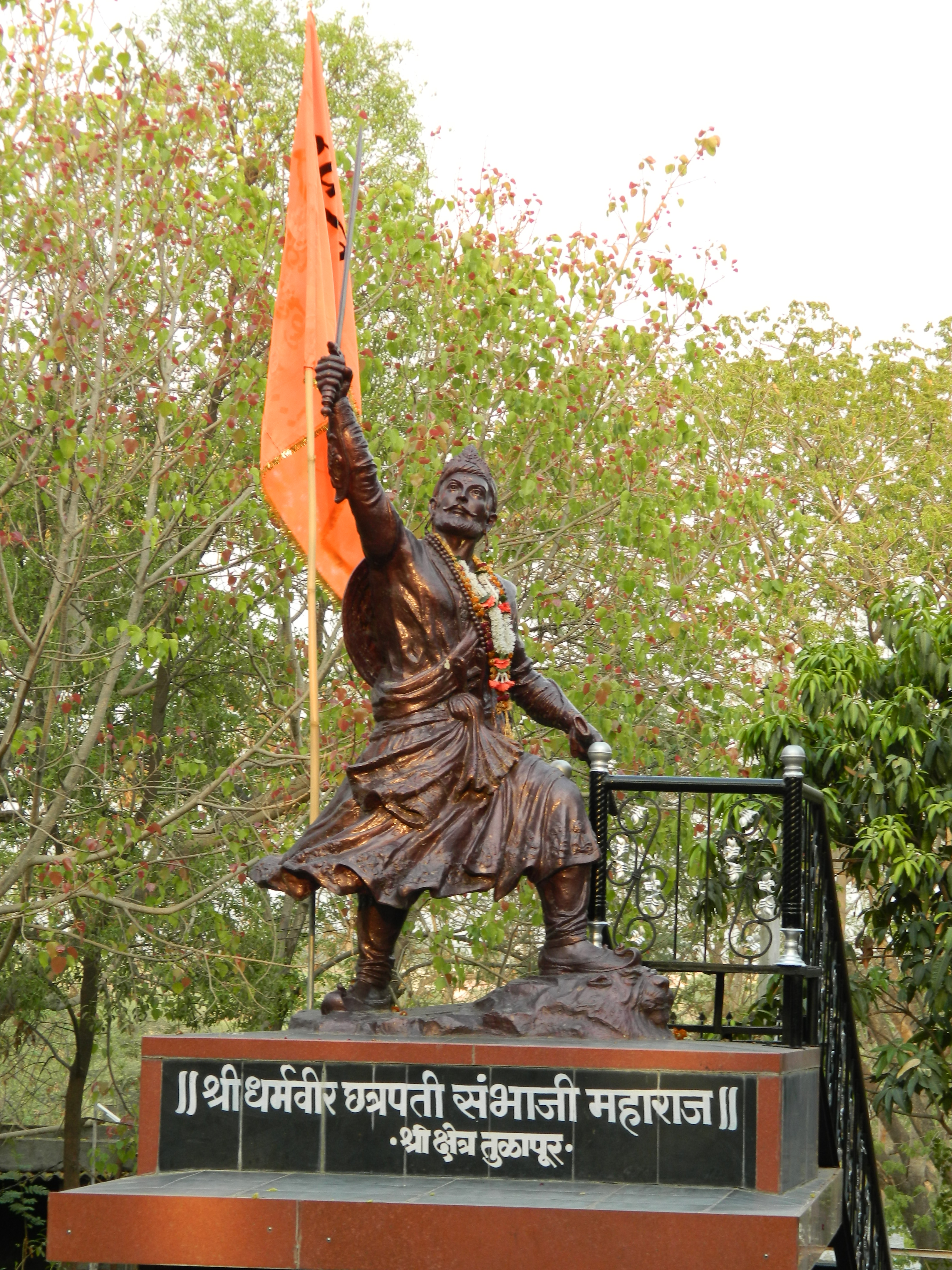 Samadhi of Chhatrapati Sambhaji Maharaja